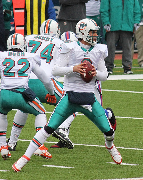 Matt Moore. Miami Dolphins vs Buffalo Bills. December 18, 2011. Ralph Wilson Stadium. Taken by Kevin Coleman